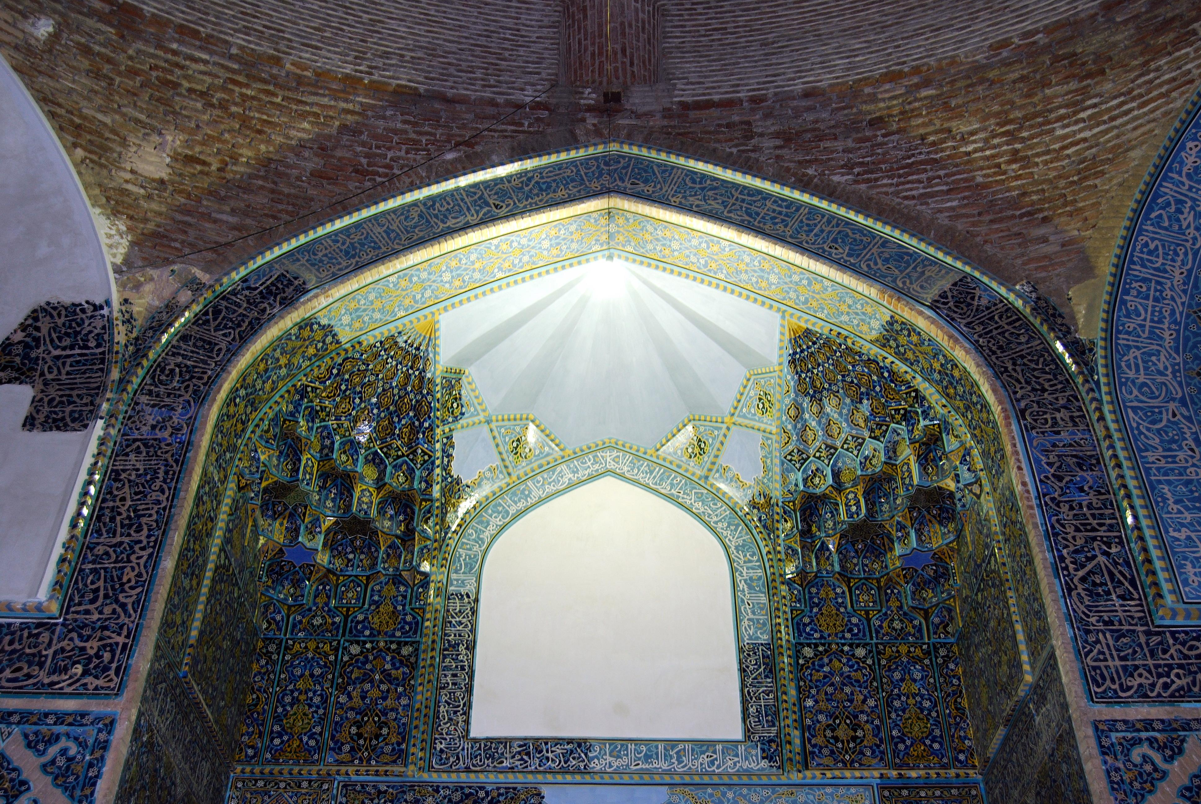 Blue Mosque of Tabriz, Iran.